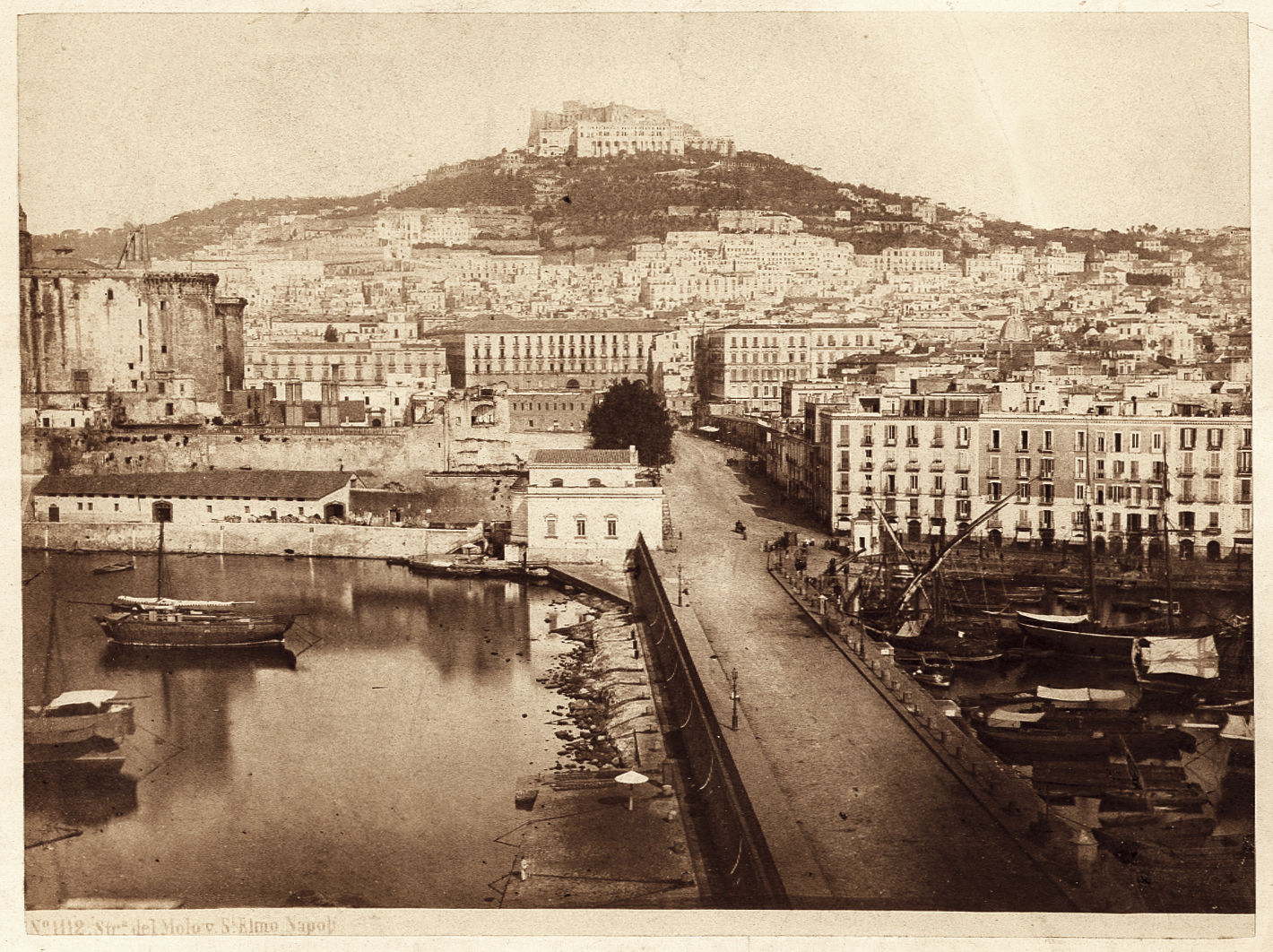 Giorgio Sommer (1834-1914), "Napoli - View from the docks". Catalogue #: 1112.